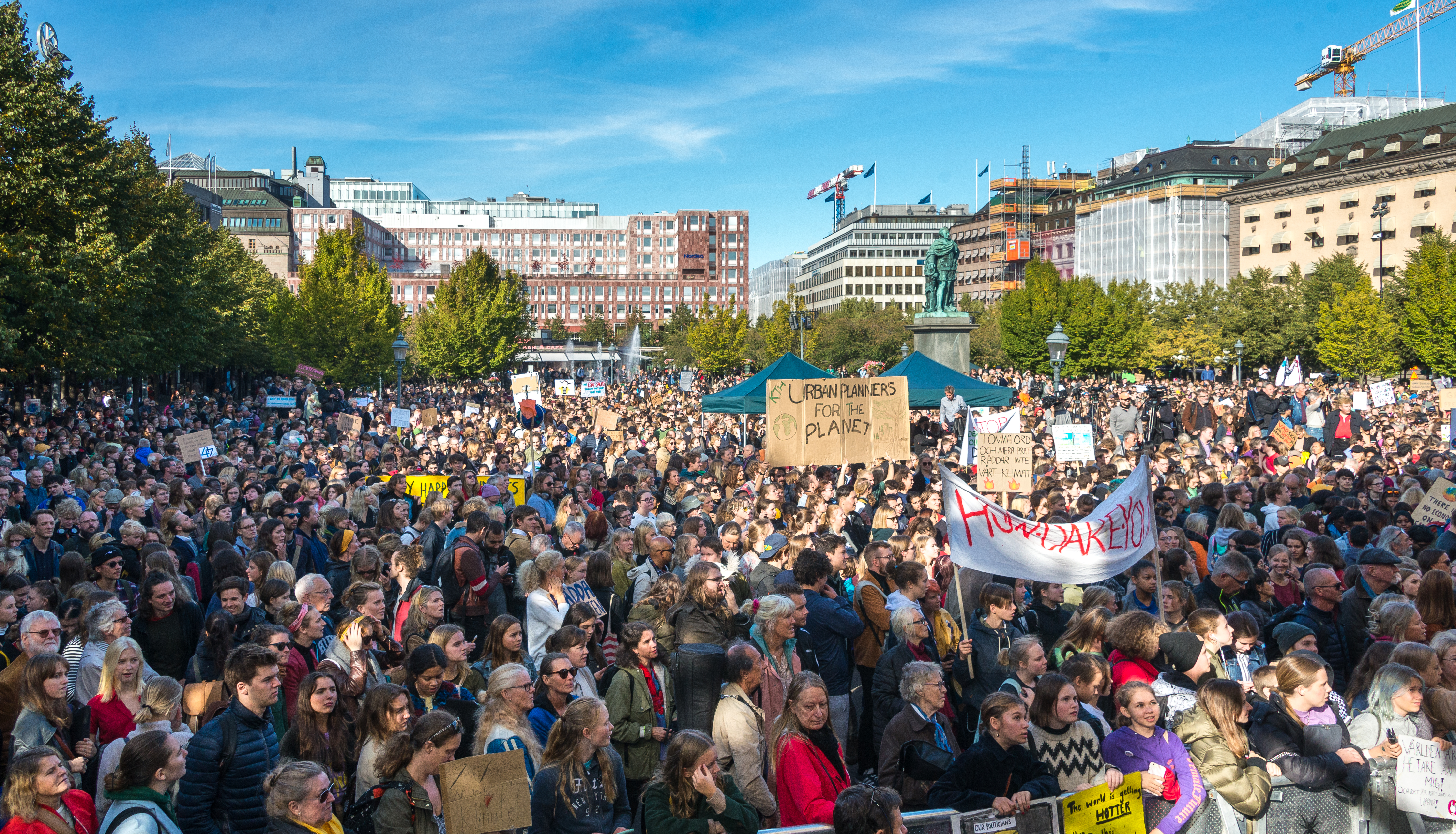 The Fridays for Future climate demonstration on September 27 in Stockholm attracted 50,000 people and culminated in Kungsträdgården with concerts and speeches.